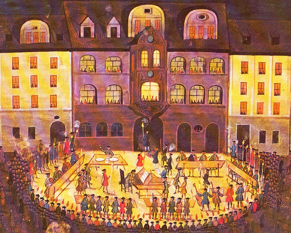 Collegium musicum in Jena 1744